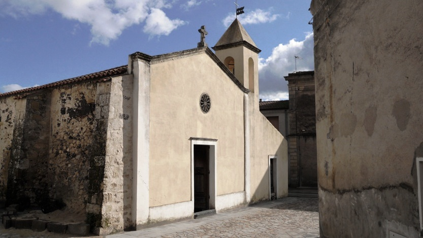 Church in Borutta (SS), Sardegna